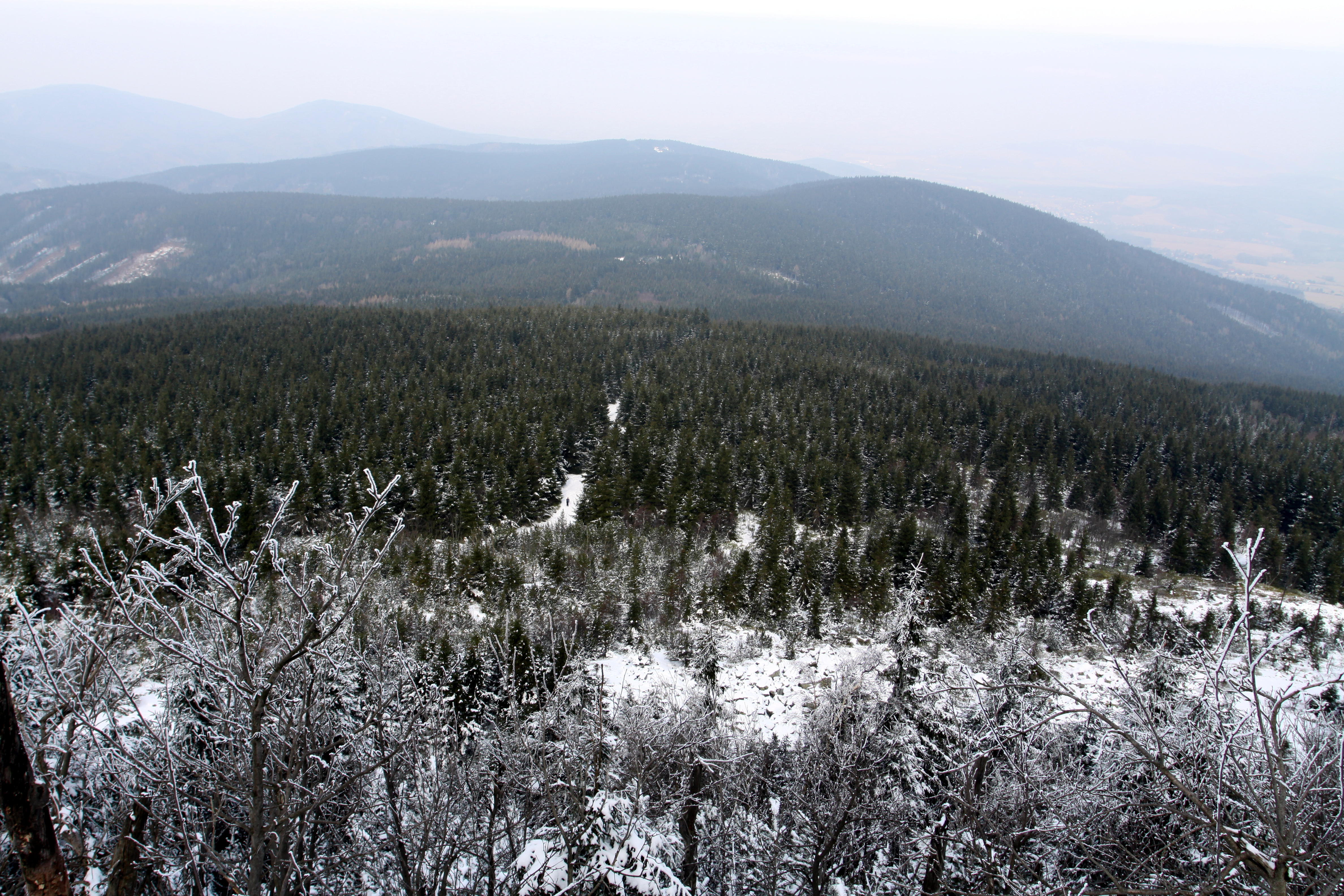 Natural monument Terasy Ještědu near Liberec in Liberec District, Czech Republic